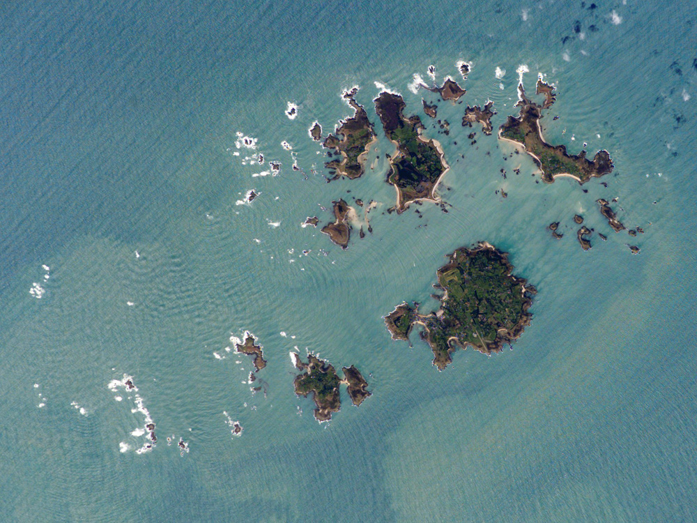 An aerial photo of the Isles of Scilly, Great Britain.